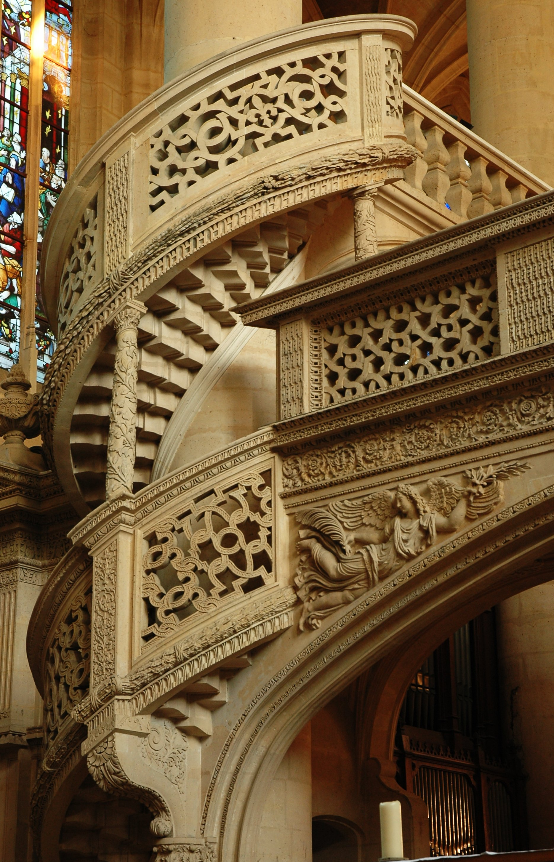 Left stairs of the jube (altar screen), Saint-Étienne-du-Mont, Paris, ca. 1530.